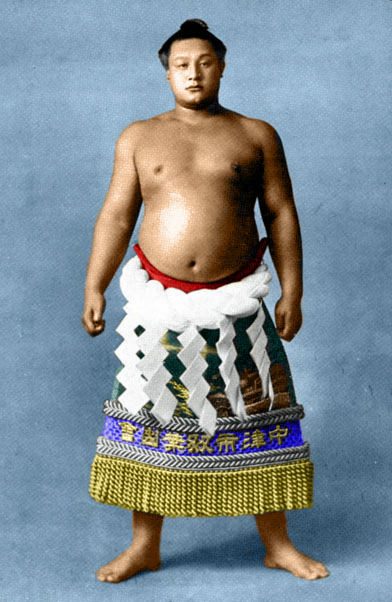 the 35th Yokozuna Futabayama Sadaji（第35代横綱 双葉山定次)